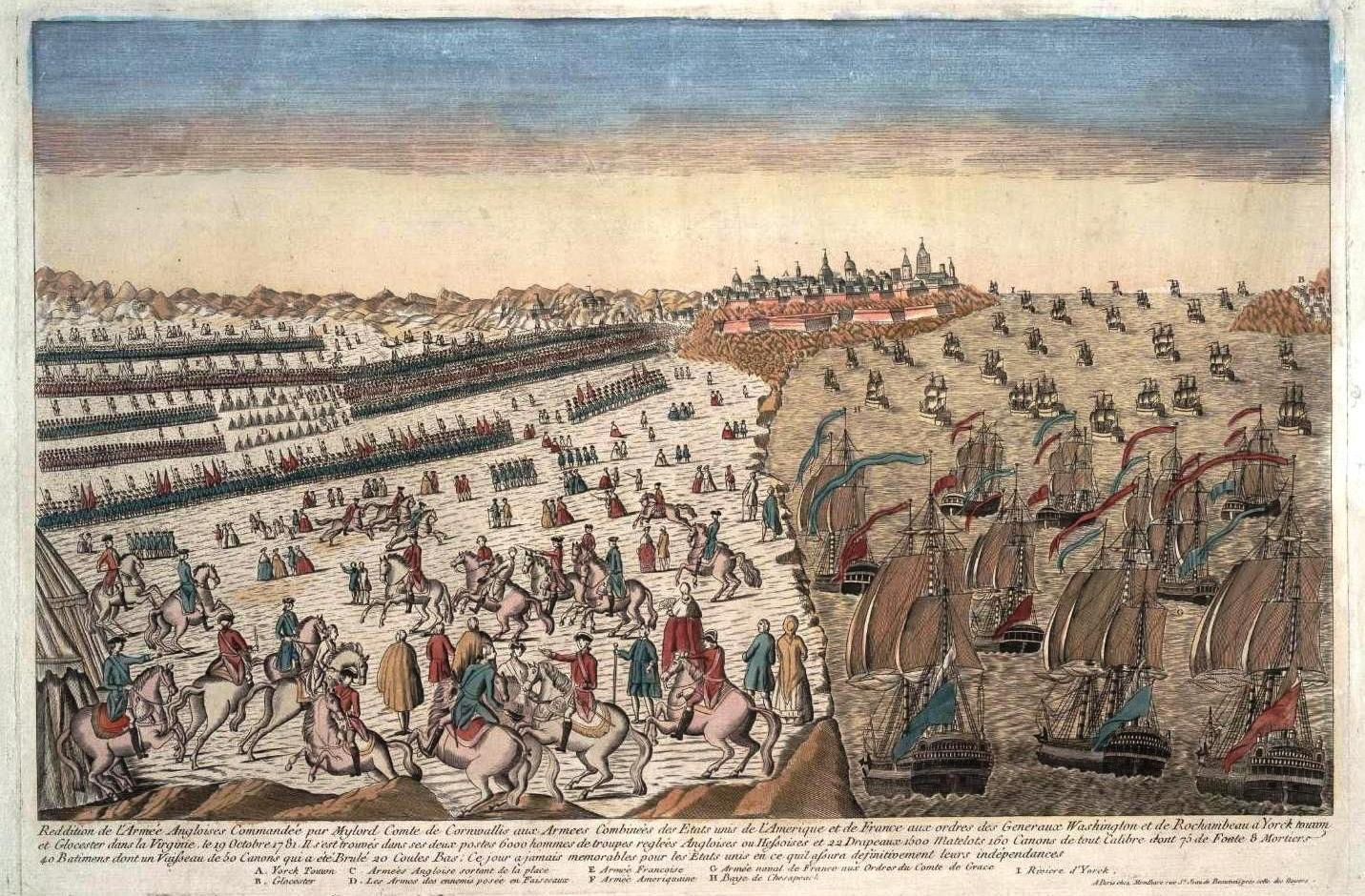 Rough translation: "Surrender of the British army of Lord Cornwallis to the combined armies of the United States of America and France commanded by Generals George Washington and Rochambeau at Yorktown and Gloucester, October 19, 1781. F: United States Army. G: Army Navy of France under the command of Count De Grasse. H: Chesapeake Bay. I: River of York. Hand-colored copper-engraving (crude in style); imaginary perspective view of Yorktown surrender, with many massed troops and mounted officers on plain at left, warships close to shore at right; uniform coloring incorrect. This is one of the few documents featuring the French naval blockade and land victory.